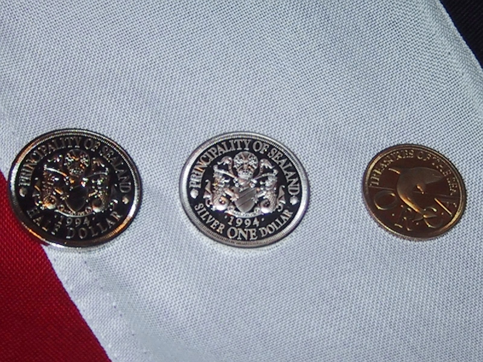 Sealandic coins Bân-lâm-gú: Se-lân Kong-kok (Sealand) ê gîn-kak-á. 西蘭公國(Sealand)的銀角仔。